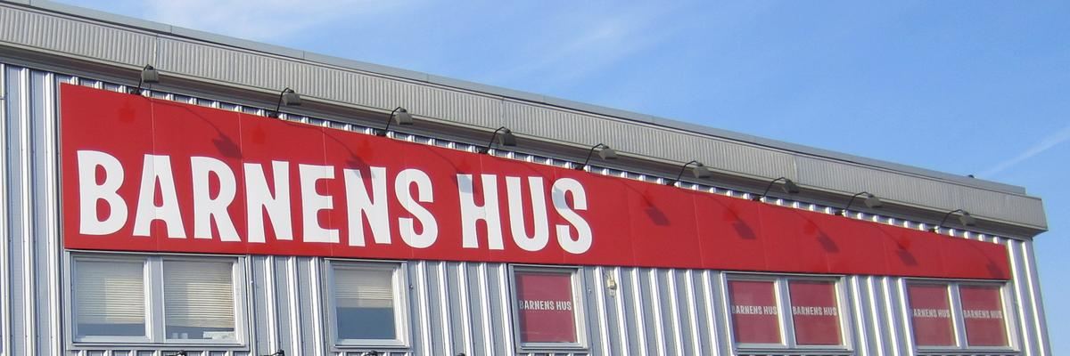 Toy store "Barnens hus" in Umeå, Sweden.